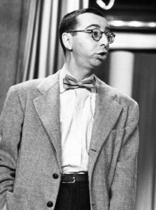 Photo of comedians Arnold Stang (left) and Henry Morgan on the set of the television program The Great Talent Hunt.